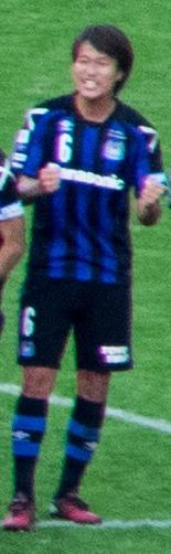 Kim Jung Ya